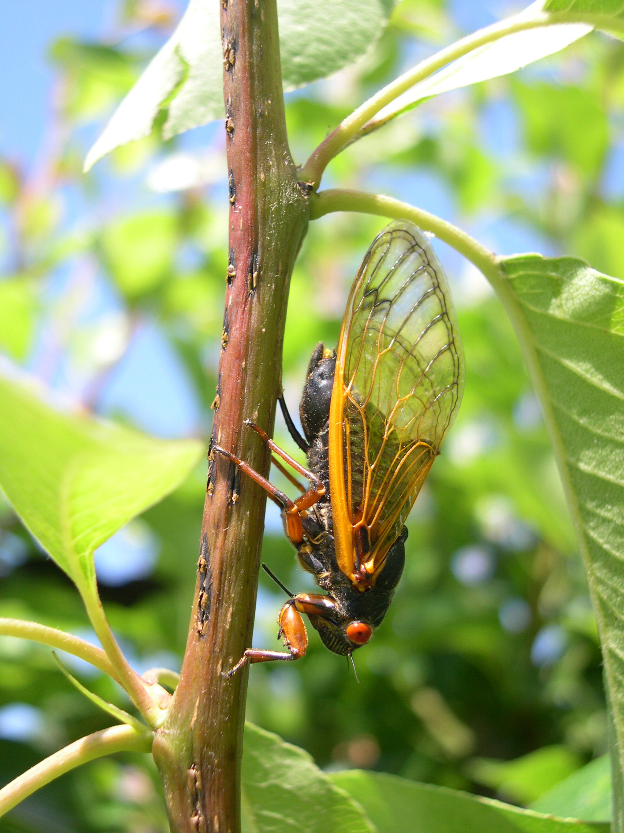 Magicicada cassini female ovipositing; note additional eggnest scars on twig. Photograph by C. Simon.